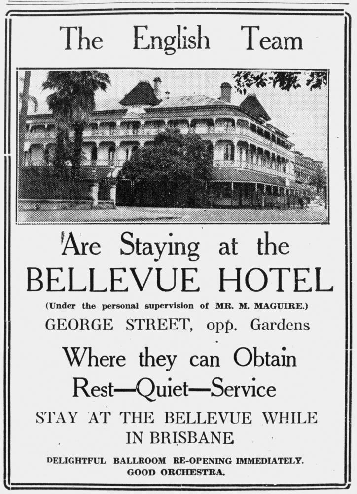 Advertisement for the 'Bellevue Hotel', George Street, Brisbane, 1933. Advertisement for the 'Bellevue Hotel' that appeared in the Telegraph, 6 February. 1933. The hotel accomodated the English Cricket Team during the Fourth Test of the 'Bodyline Series' played in Brisbane in February, 1933. (Description supplied with photograph).